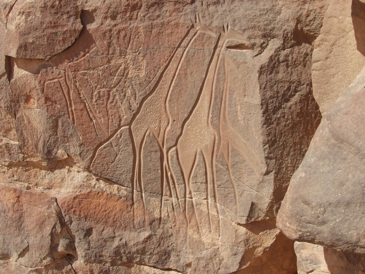 engraving of giraffes at Mathendous in the desert of Libya.